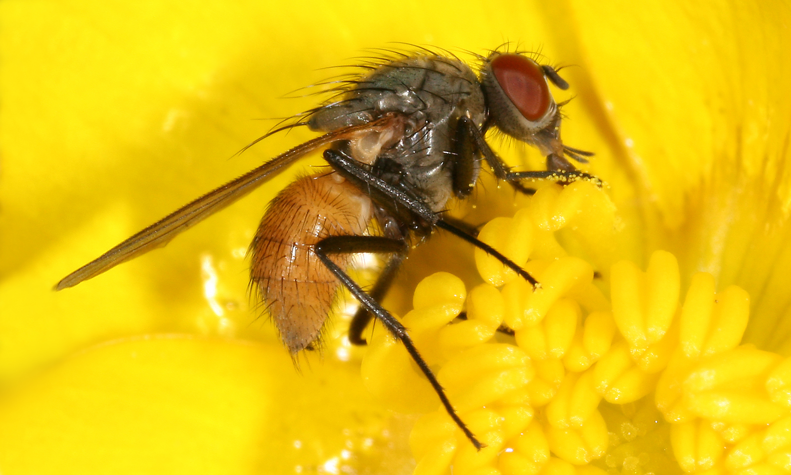 Description: Thricops semicinereus on Ranunculus acris.